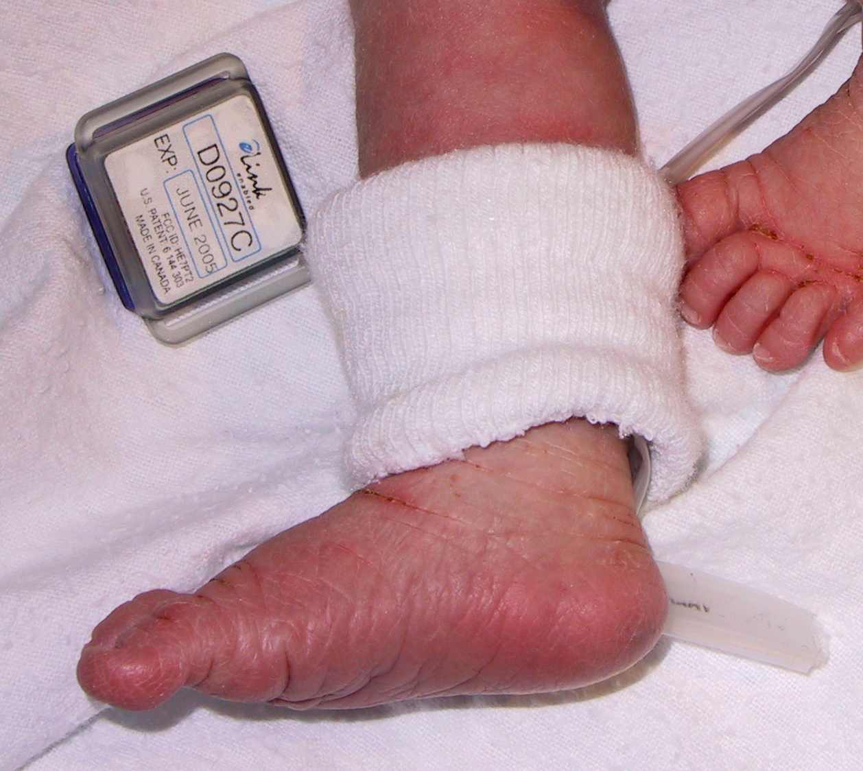 Exit control ankle alarm: when it slips out of the ankle wrap, all exits in a particular section of the building automatically lock.